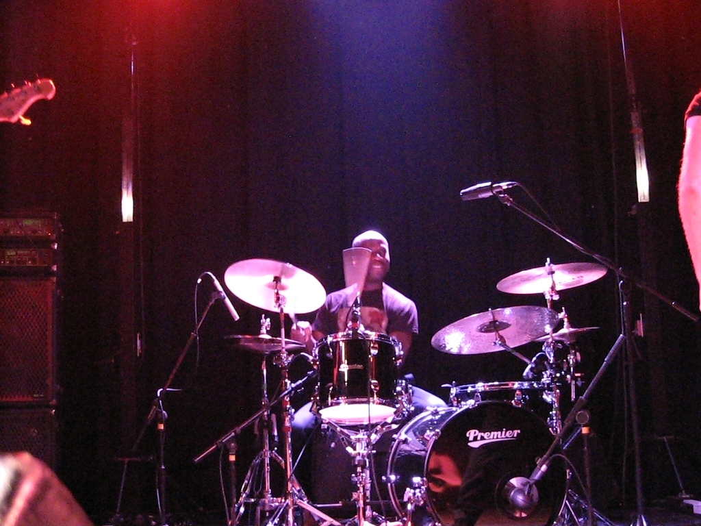 Threshold at the CRS Autumn Rokfest, 2007-11-03.